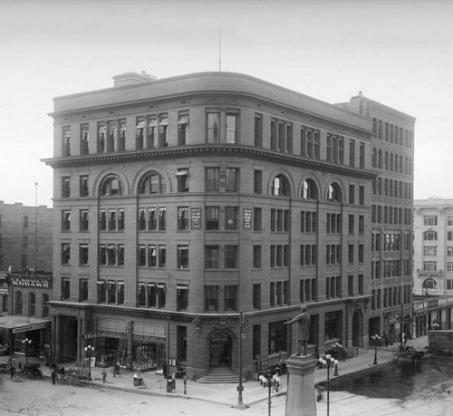 The Deseret News Building and Annex, also known as the Oregon Short Line Building, and as the Union Pacific Building. Located in downtown Salt Lake City, on the corner of South Temple and Main Street. Taken in March 1911 from the Hotel Utah by Shipler Commercial Photographers.